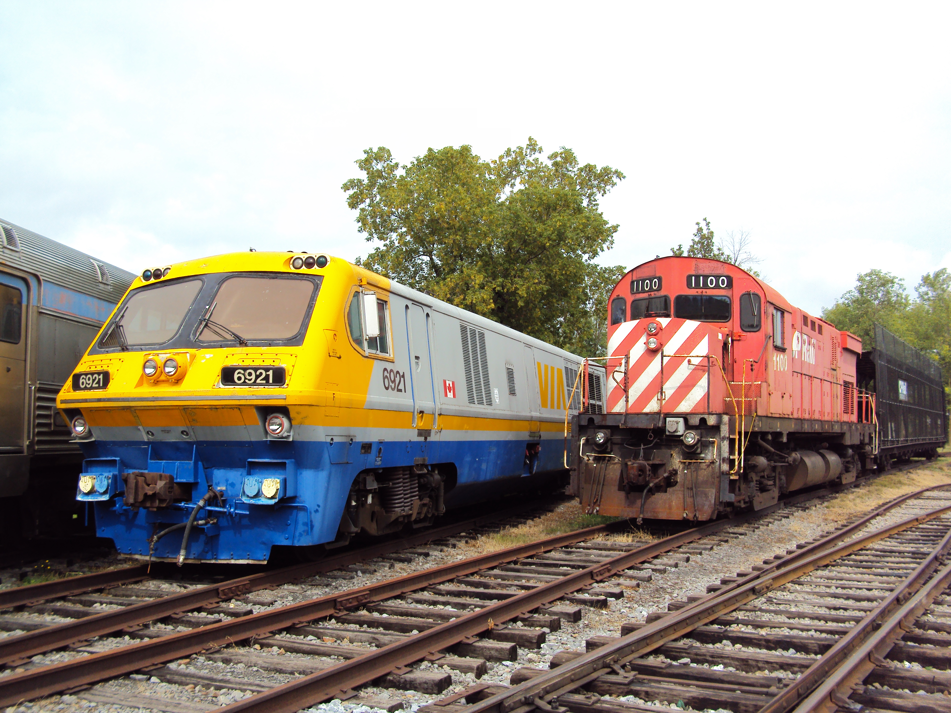 outside exposure exporail - Via 6921 and 1100